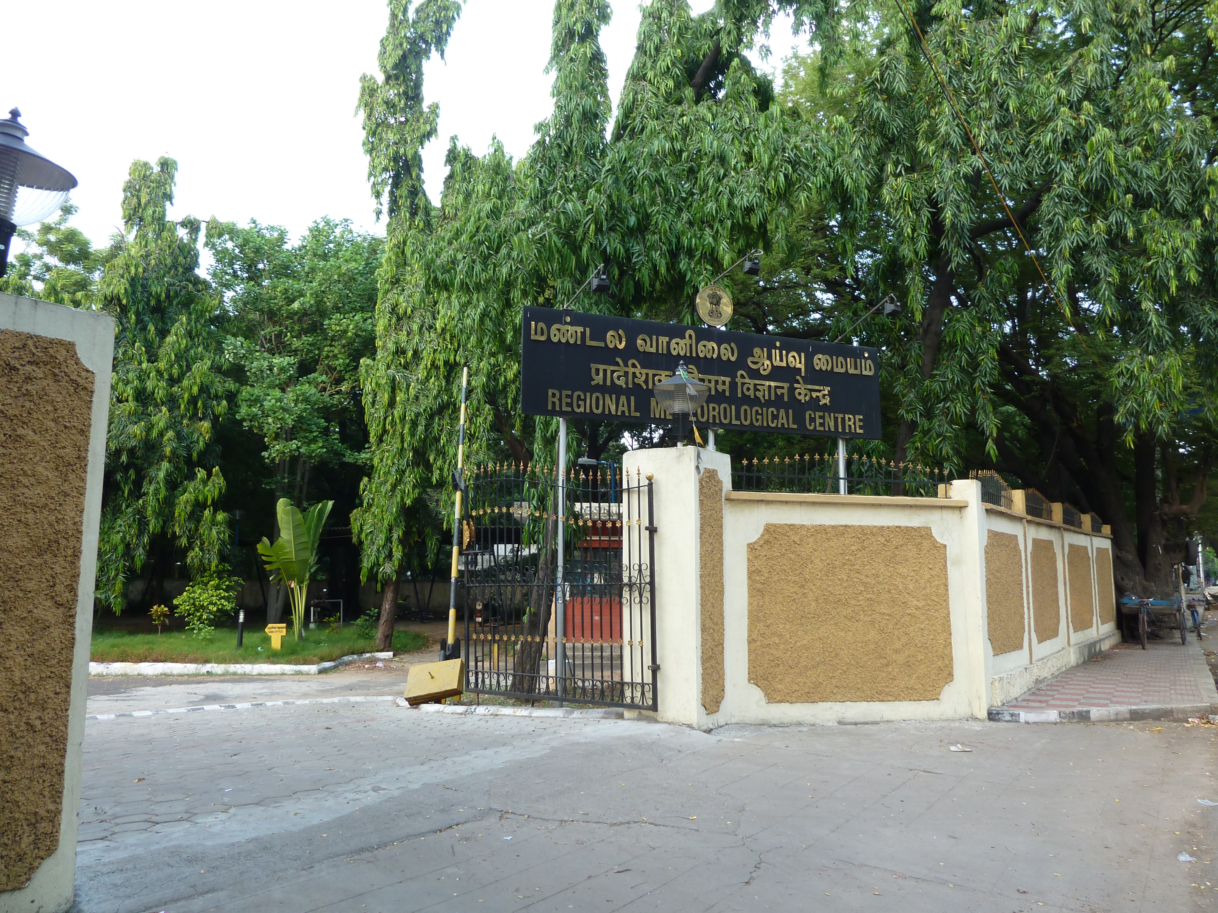 This is the entrance of Regional metrological centre which is situated in College road, Chennai, India